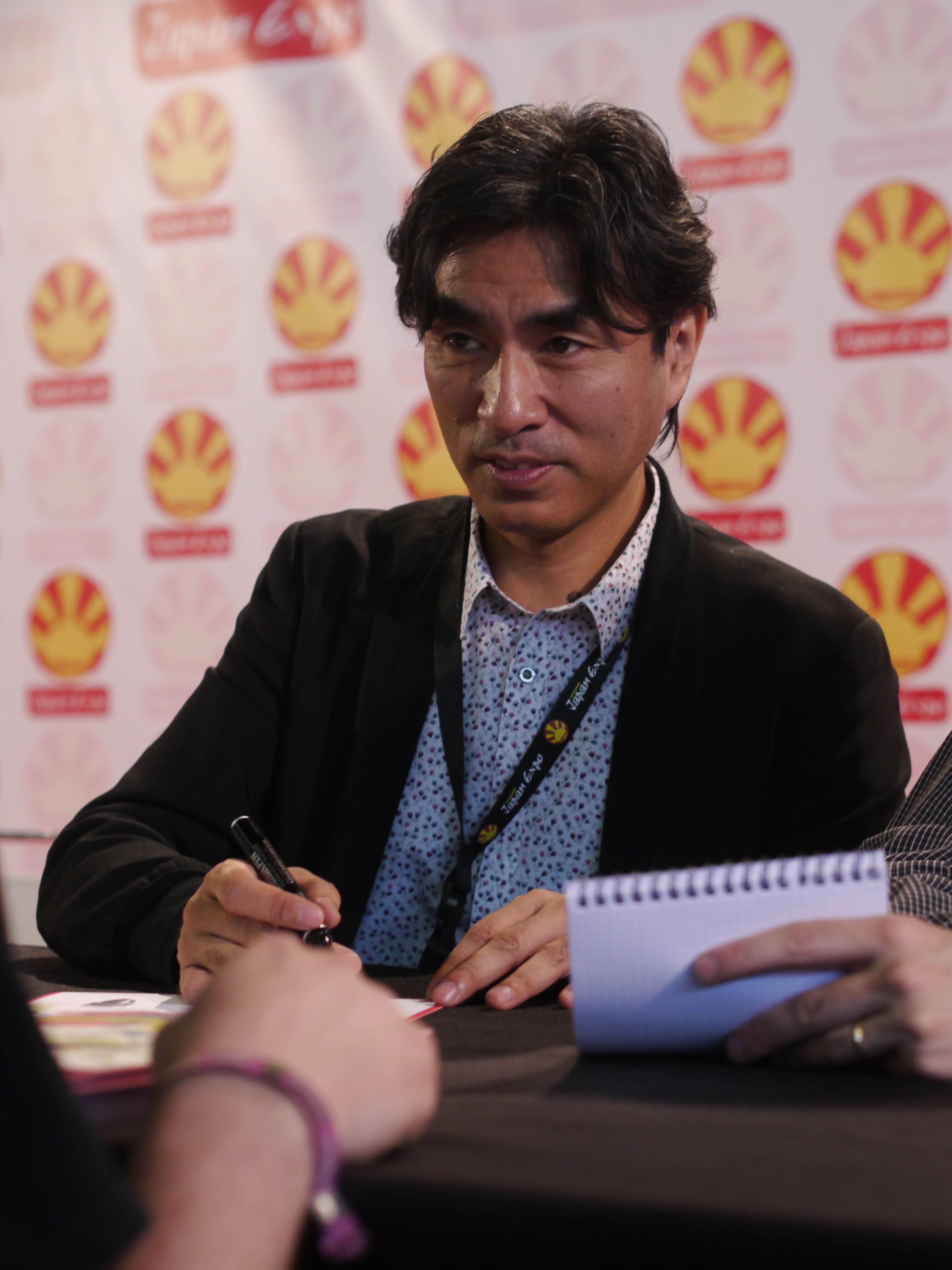 Japan Expo Festival, 14th impact